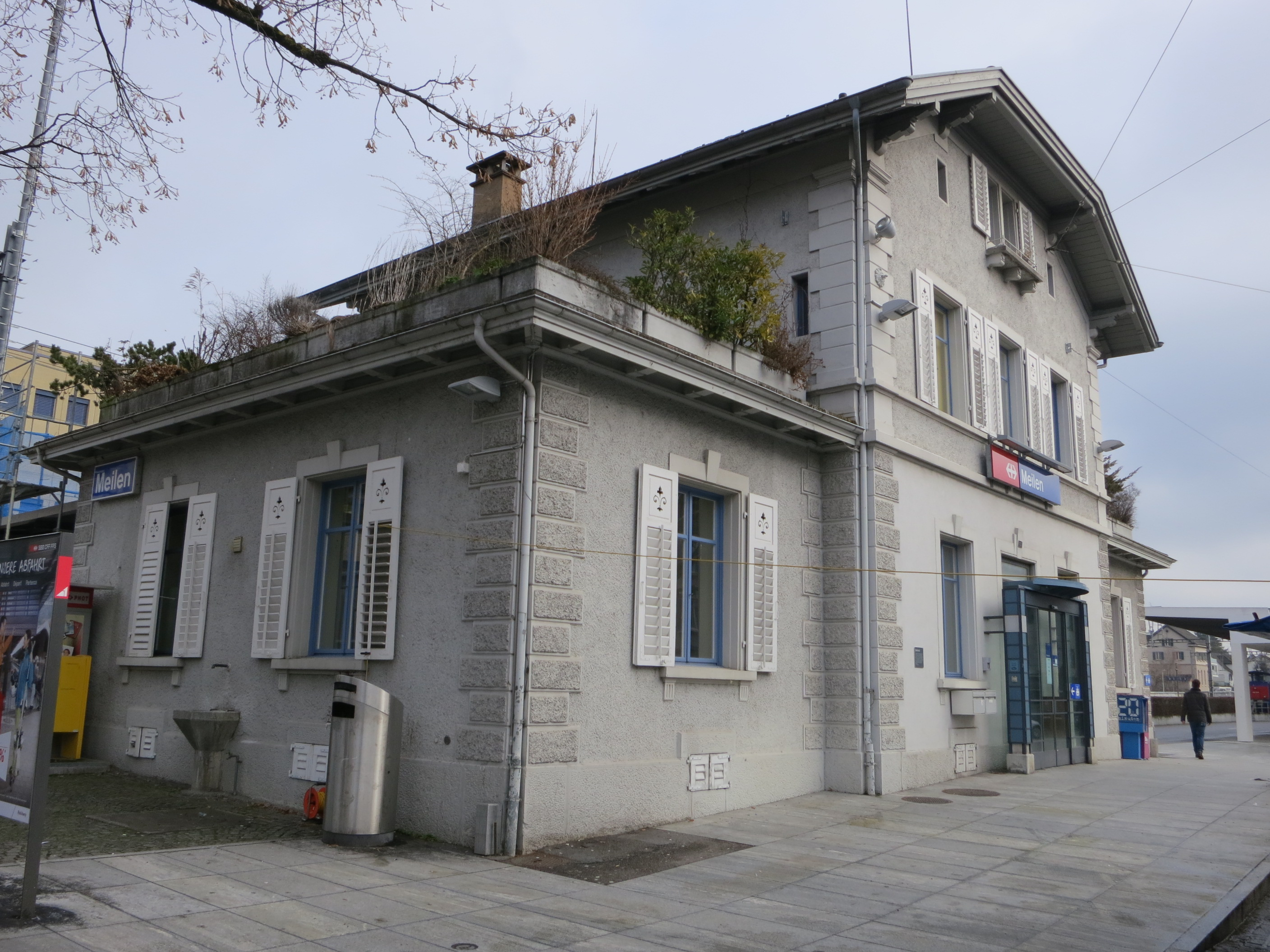 Bahnhof Meilen ZH, Schweiz